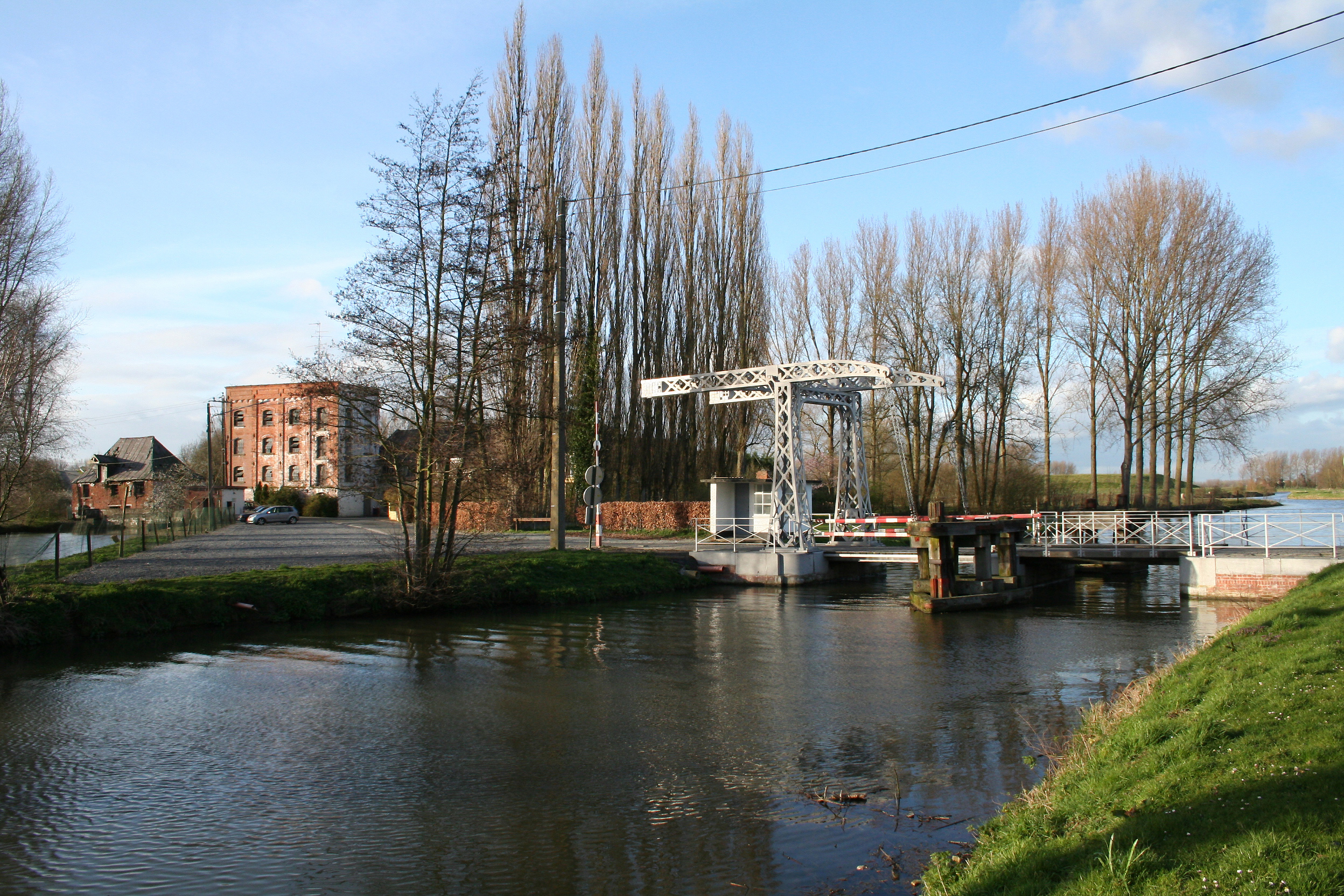 Rebaix (Belgium), the drawbridge on the Dendre river and the old « de Tenre » watermill (1720).